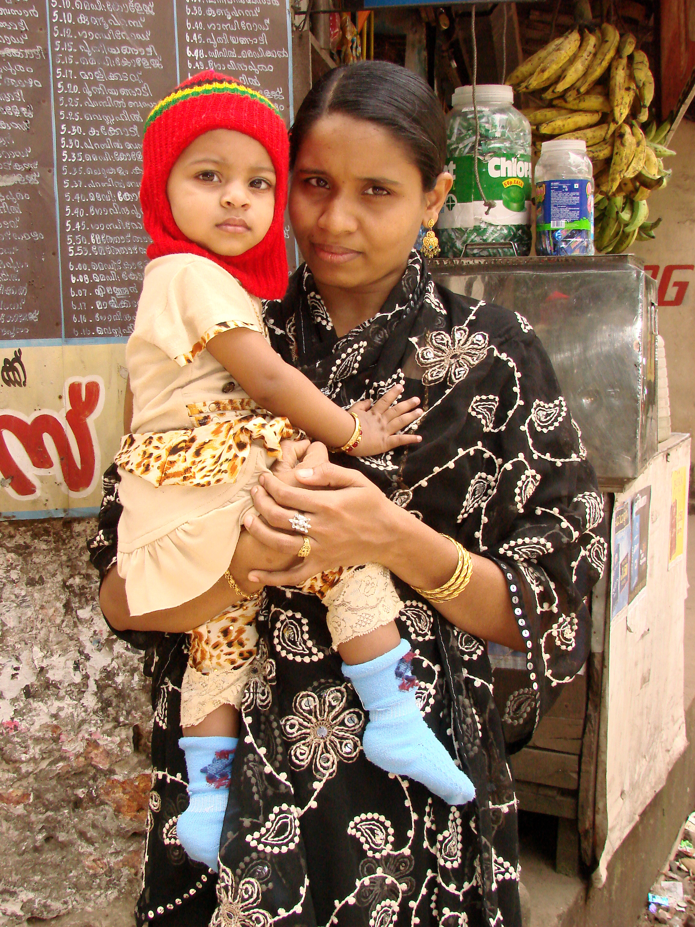 Mother and child in Kozhikode, Kerala, India. August 2008.